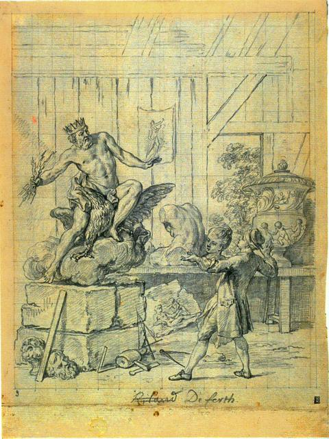 Charles-Nicolas Cochin (1715-90). Le statuaire et la statue de Jupiter, illustration for Jean de La Fontaine's Fables choisies, Book IX, Fable 175.